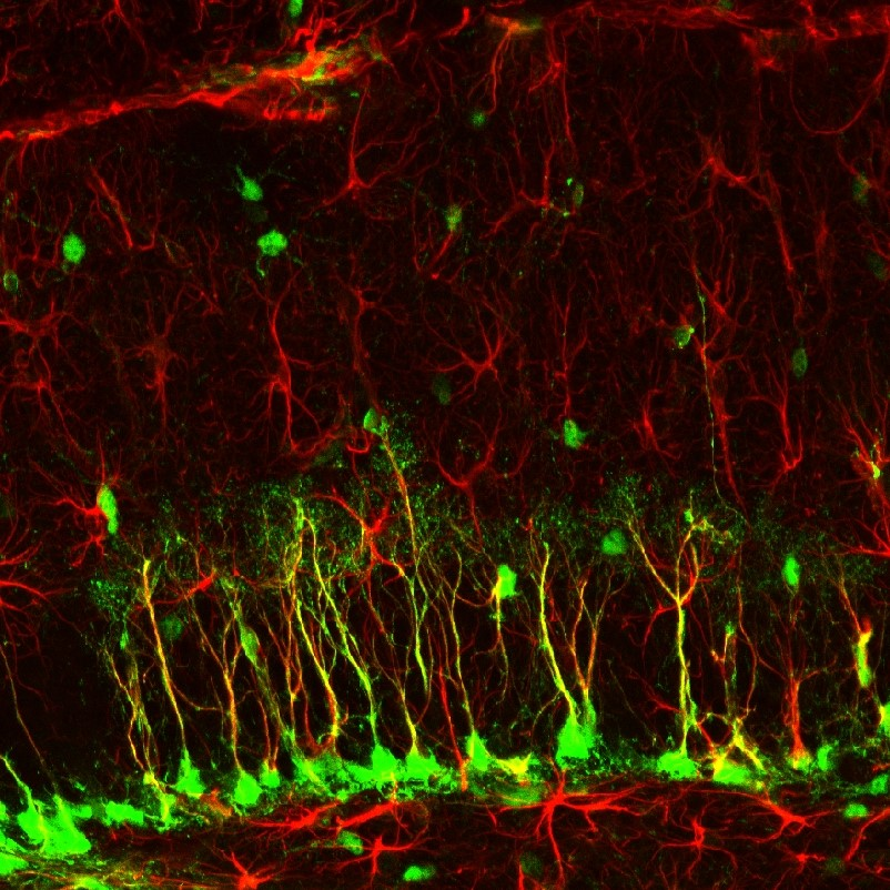 This image shows the dentate gyrus of the hippocampus of a young mice. Dyied in green we can see "the trees" (neural stem cells) and in red the astrocytes surrouding them. These cells help in the storage of memory in mammals.